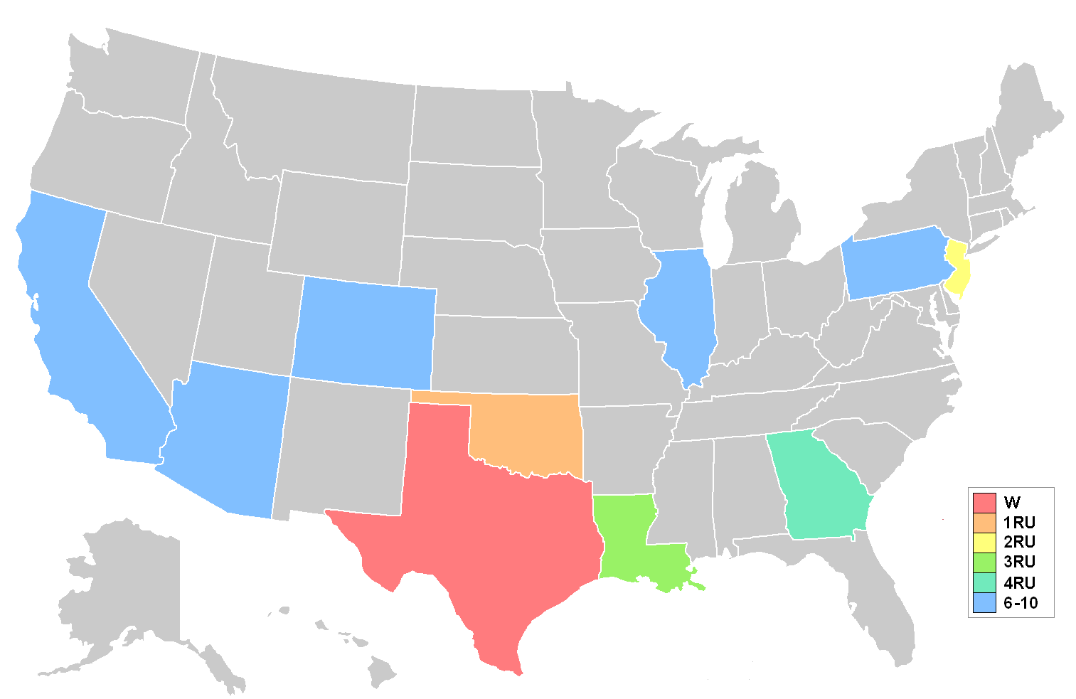 Map showing placements at the Miss USA 1989 pageant. Key on graphic shows colour coding for break down of placements.